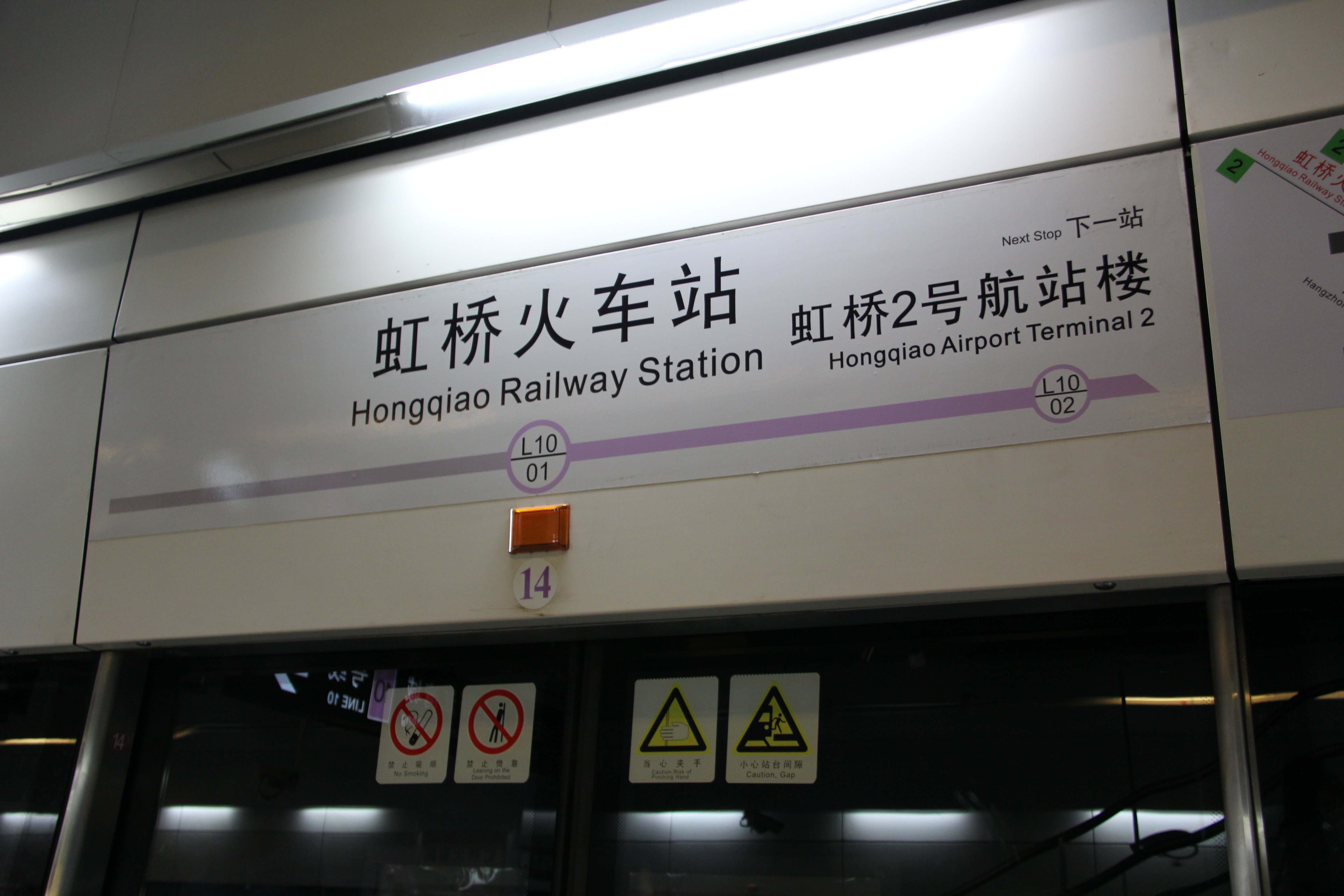 201605 Train station signs for L10 at Hongqiao Railway Station, with number